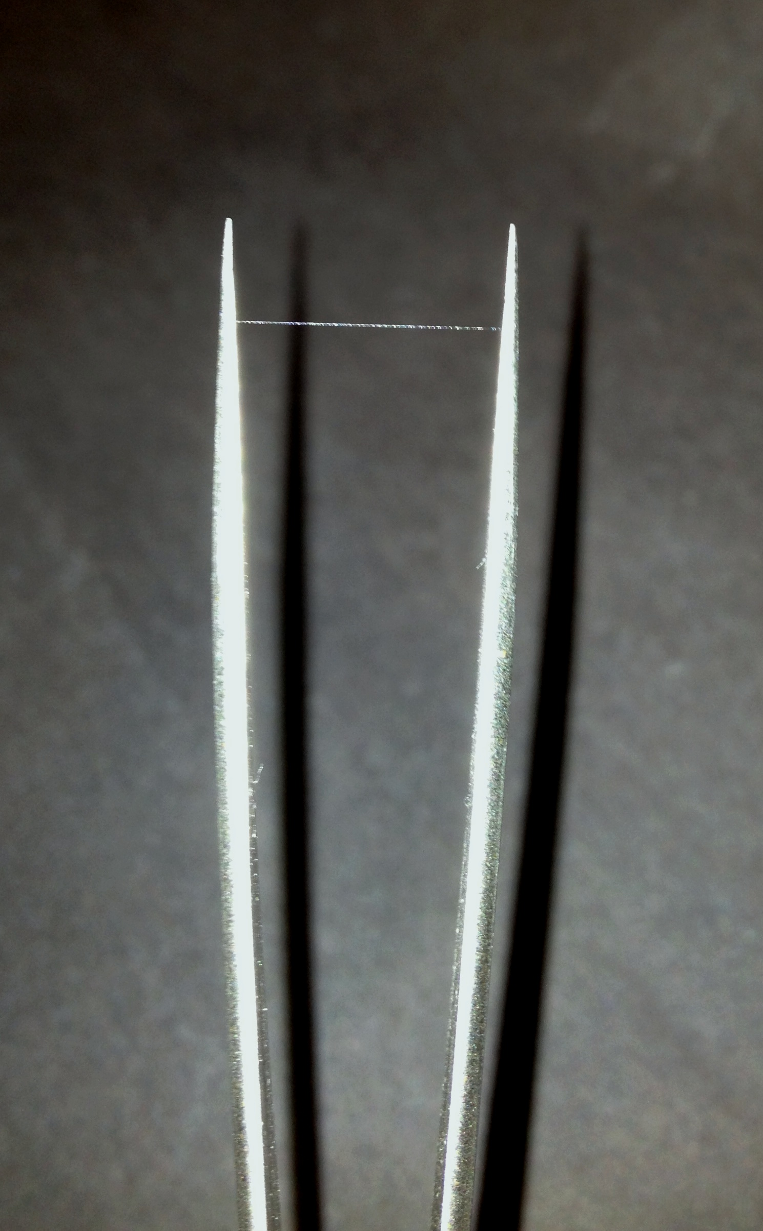 A small piece of artificial spider silk produced via feedstock extracted from the Caerostris darwini spider.